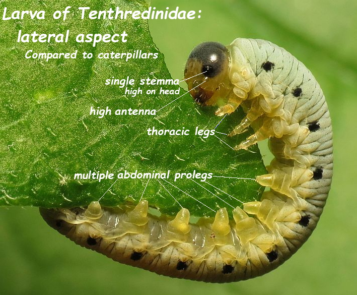 Partly compares the anatomical features of sawfly larvae with those of Lepidopteran larvae. Just one pair of stemmata, more prolegs, head rounded, antennae and stemmata set higher on head than in caterpillars.